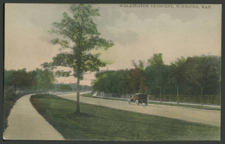 Postcard of Wellington Crescent (Winnipeg, Manitoba) c. 1908 Postcard from the Martin Berman Postcard Collection at the Winnipeg Public Libraries